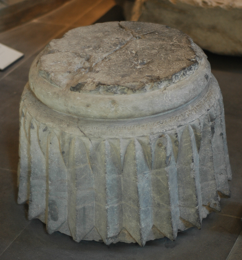 Bell-shaped column base, bearing a trilingual inscription (Old Persian, Elamite, Babylonian): “I, Darius, the Great King, King of kings.” The Old Persian versions adds: “son of Hytaspes” Limestone, ca. 510 BC. Found in the Tell of the Apadana in Susa.